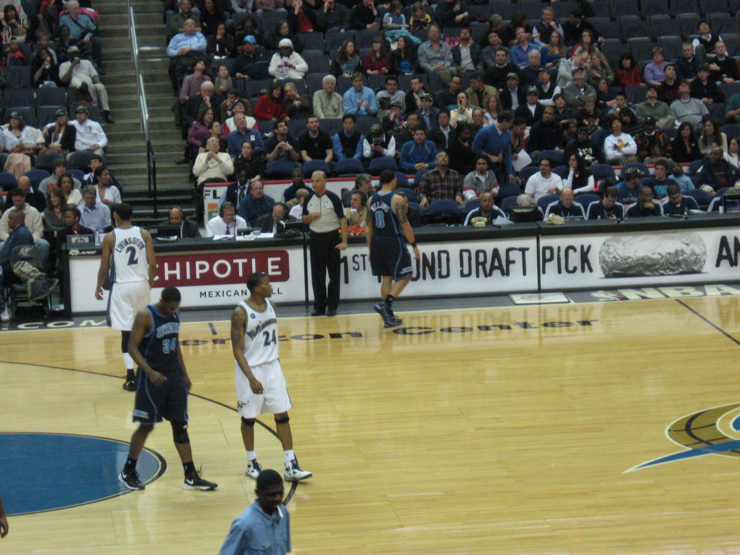 C. J. Miles and Alonzo Gee